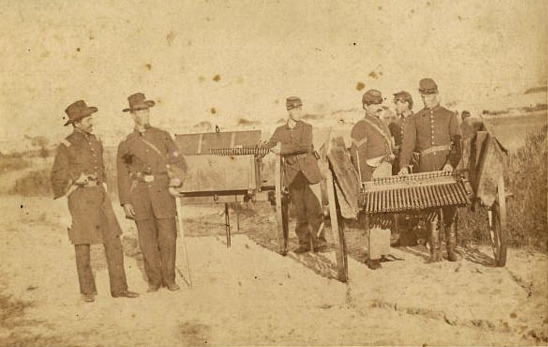 Billinghurst Requa Battery gun during testing in September 1862.